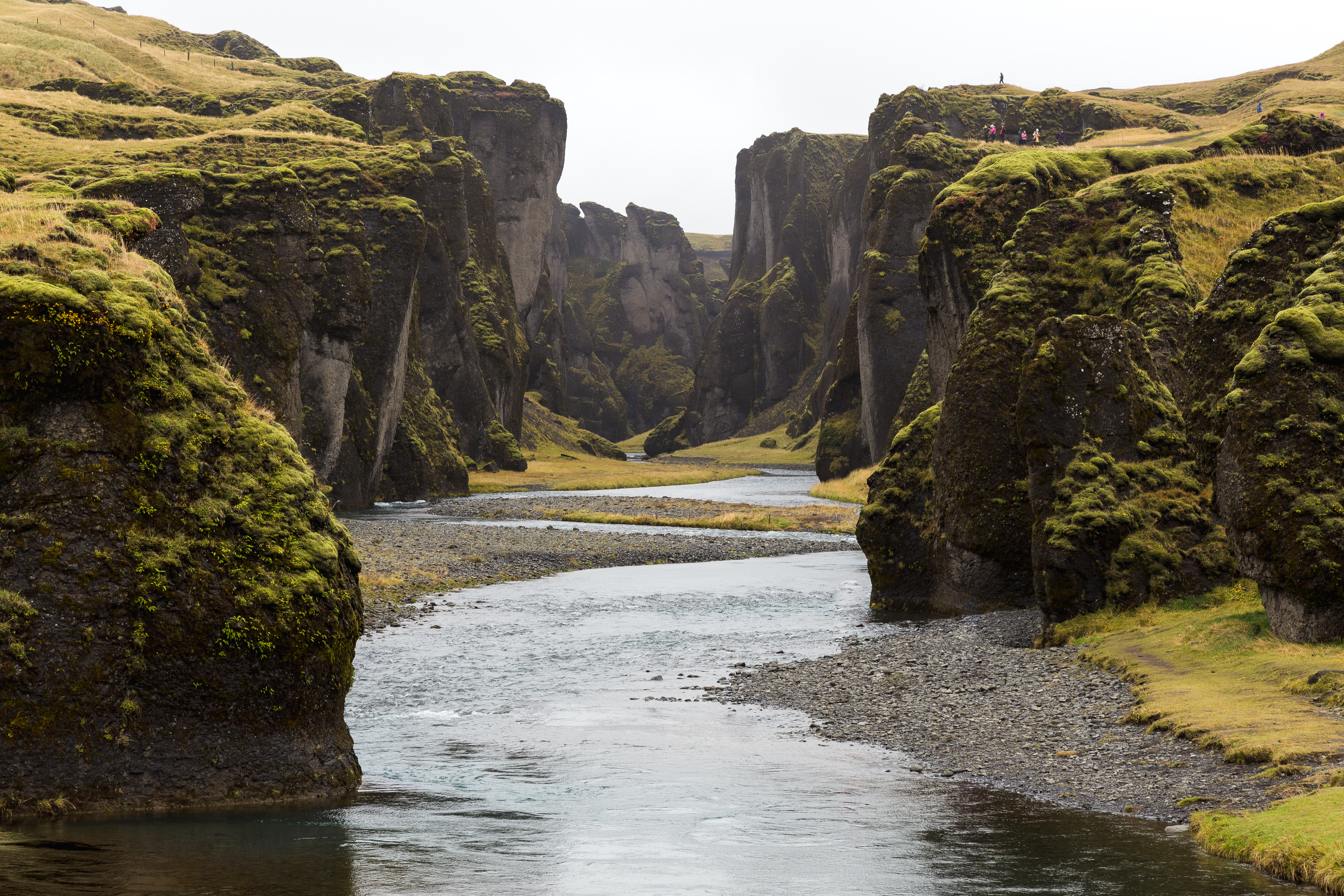 Fjaðrárgljúfur, Iceland